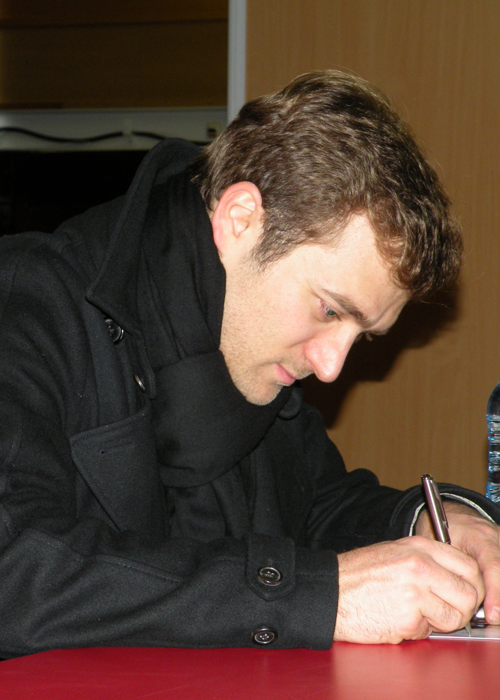 Renaud Capuçon, french violinist, on 1st February 2009, during La Folle Journée in Nantes.